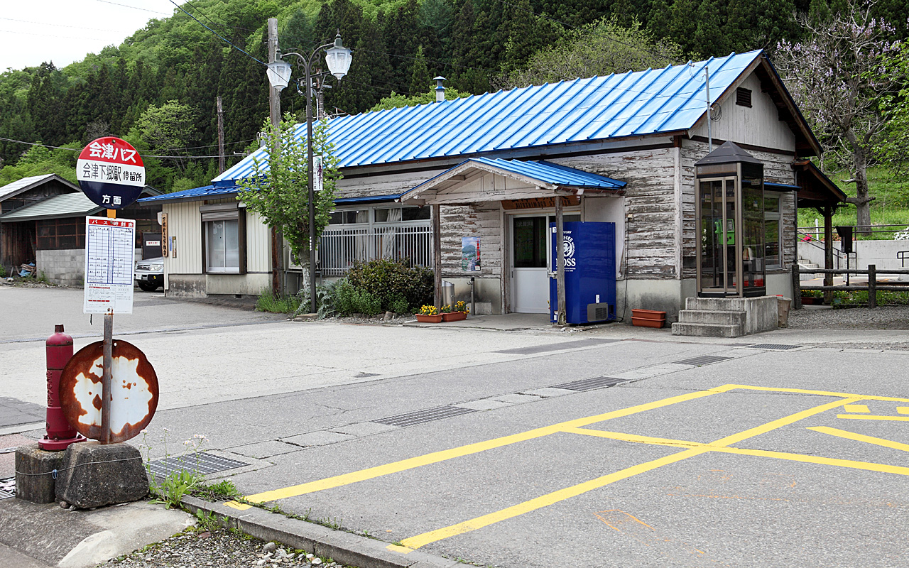 Aizu Railway Aizu-Shimogō Station and Aizu Bus Aizu-Shimogo-eki Bus Stop